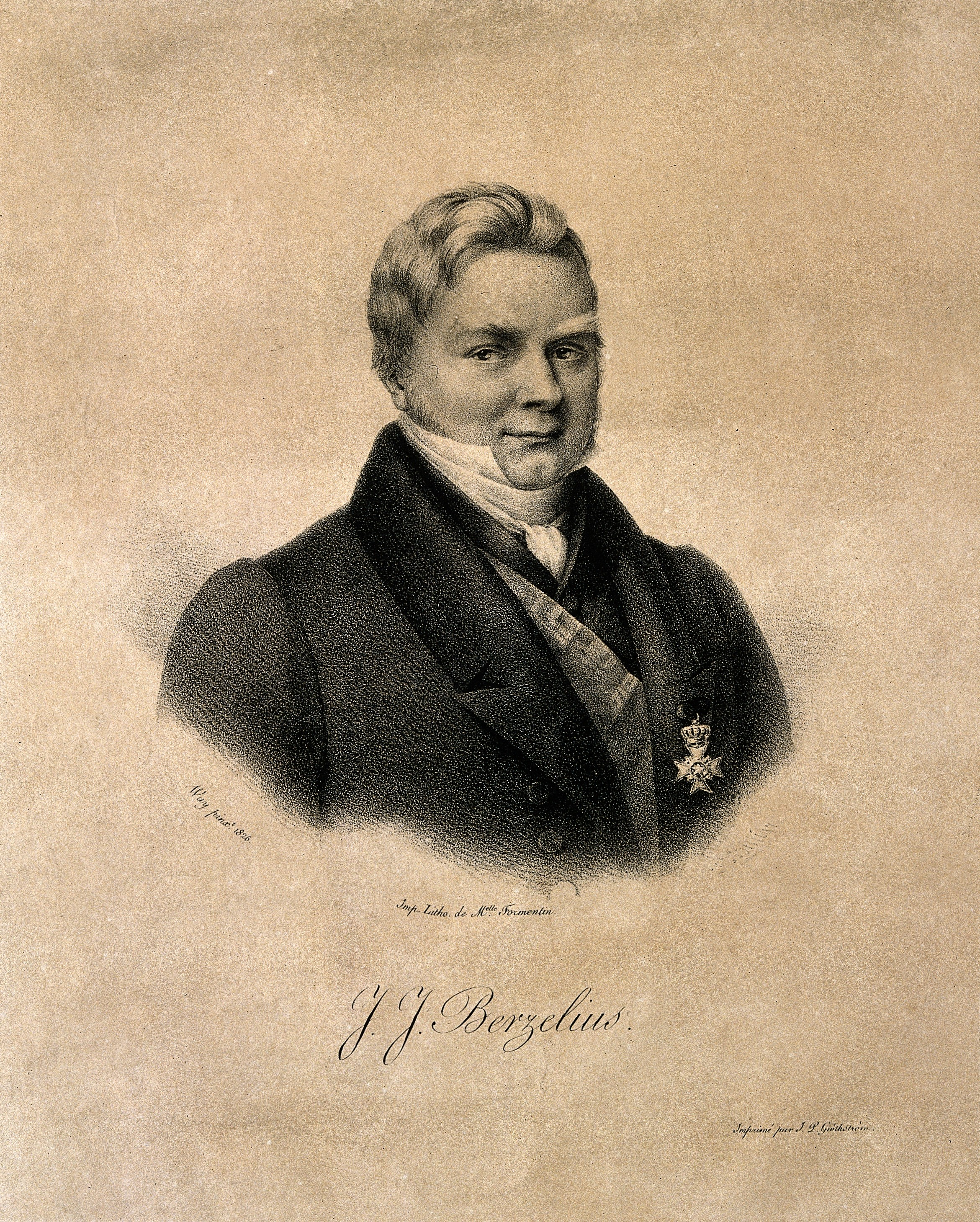 Topic-LCSH: Chemists. Genre/Technique: Portrait prints. Lithographs. Subject name: Berzelius, Jöns Jakob, friherre, 1779-1848.